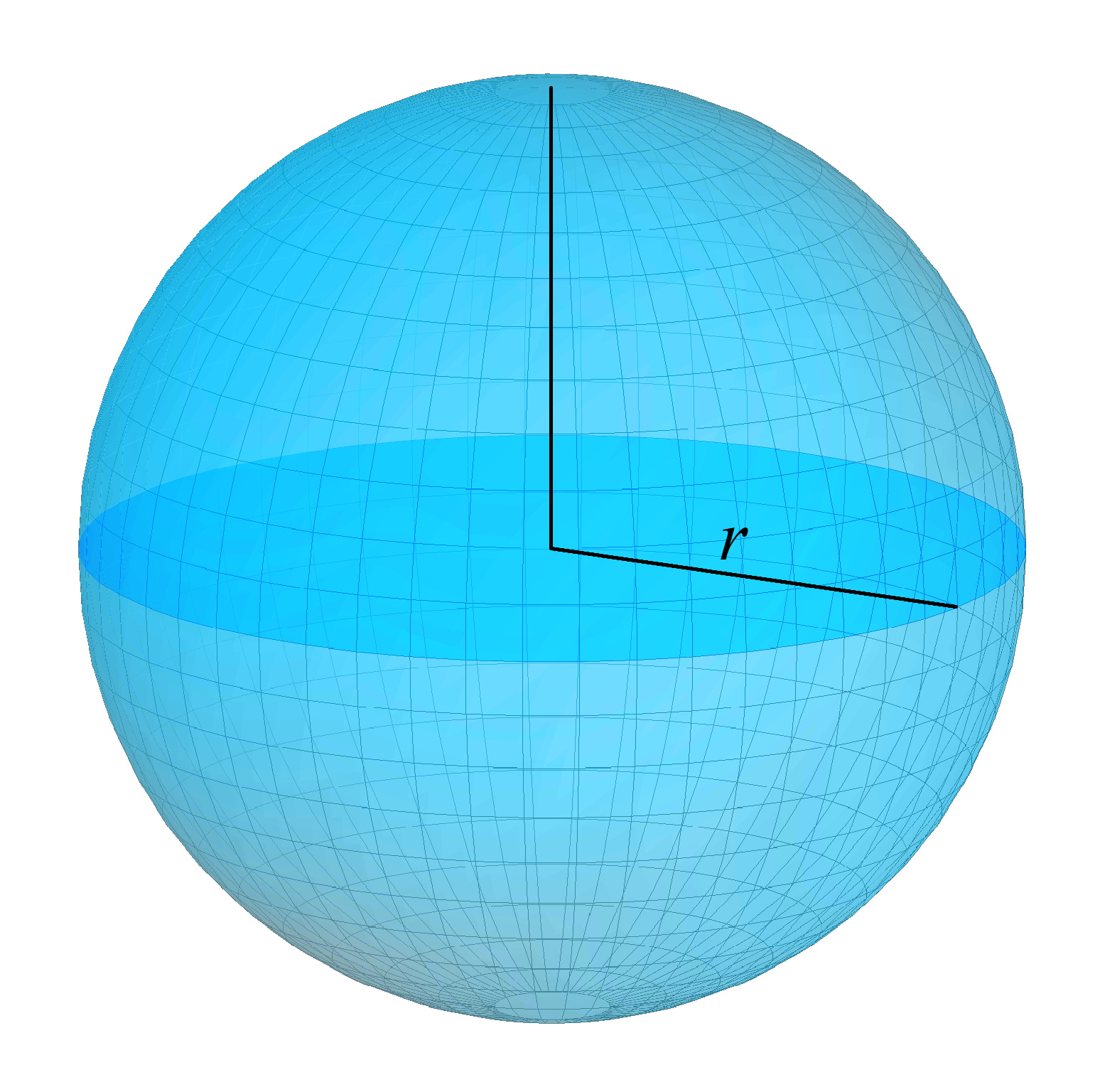 A wire-framed sphere and a ball